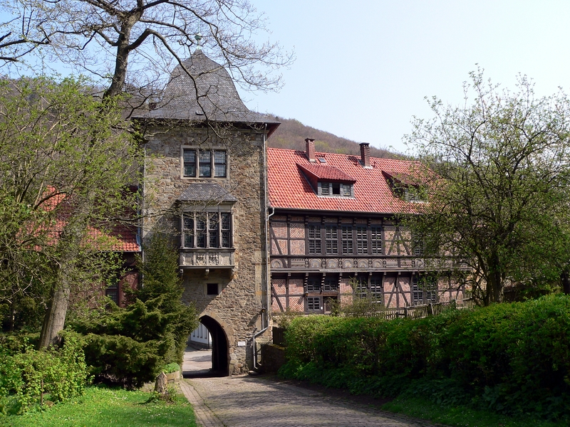 Gate house and gate tower of Schaumburg Castle in Rinteln, Germany